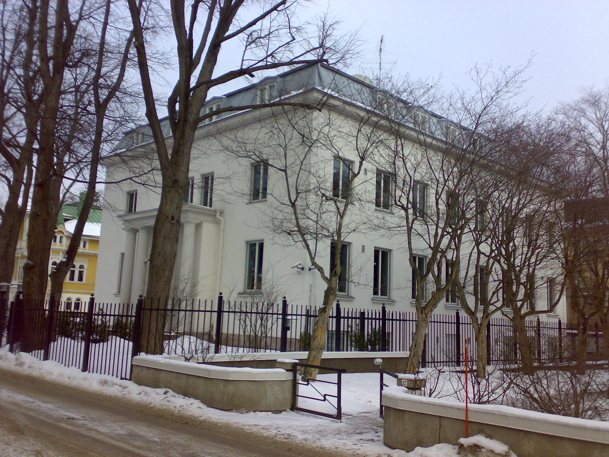 Embassy of Estonia in Helsinki, Finland